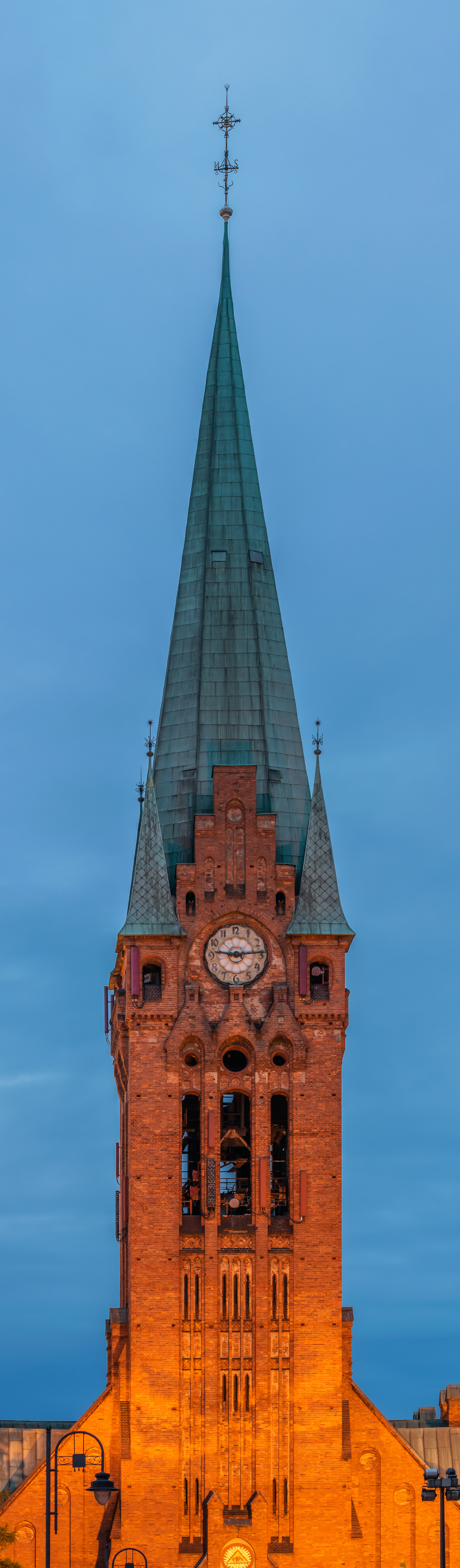 Bell tower of the Saint Andrew Bobola church in Bydgoszcz, Kuyavian-Pomeranian Voivodeship, Poland